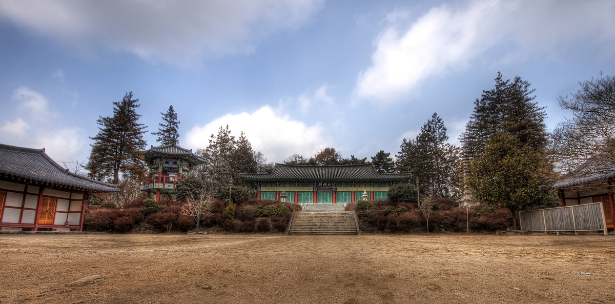 A Buddhist temple in South Korea